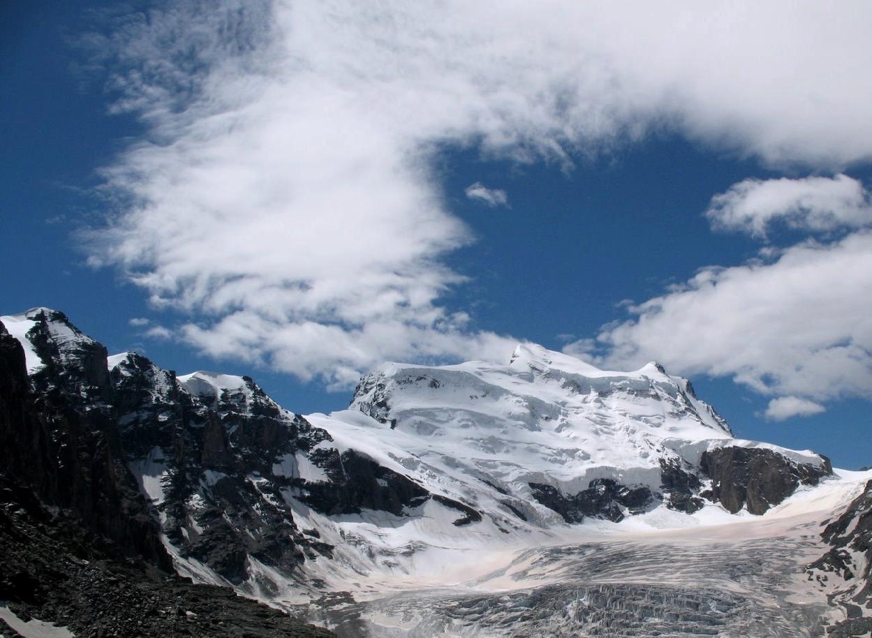 Grand Combin, Valais Alps